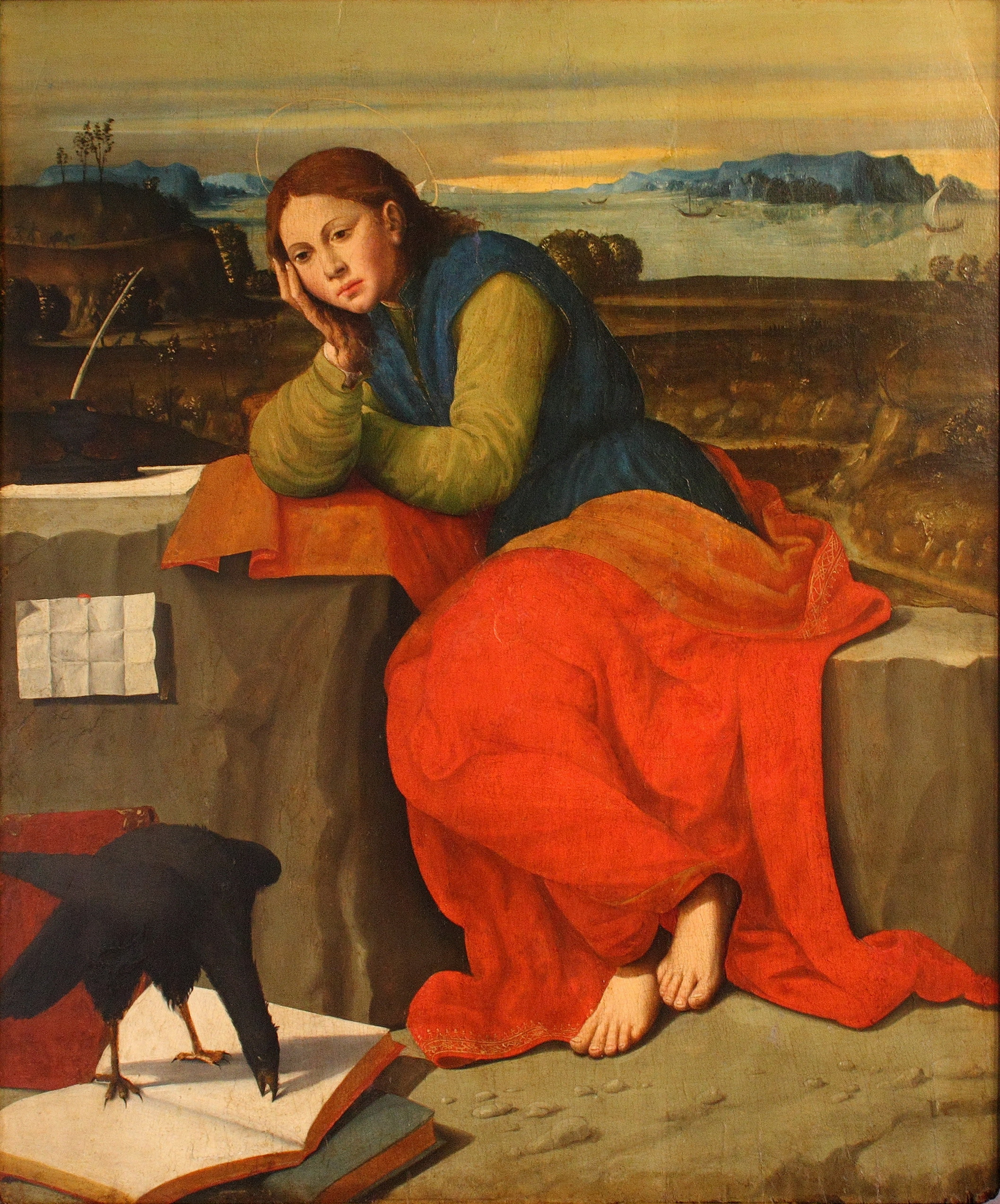 National Gallery Prague, Sternberg Palace